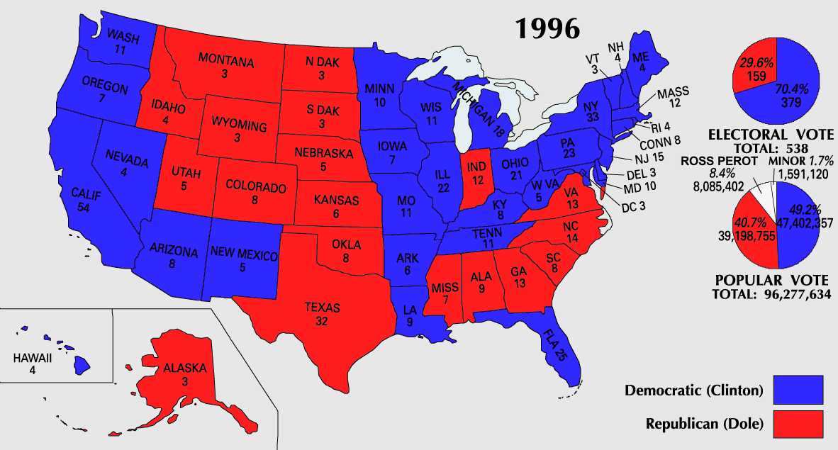 1996 Electoral College Map